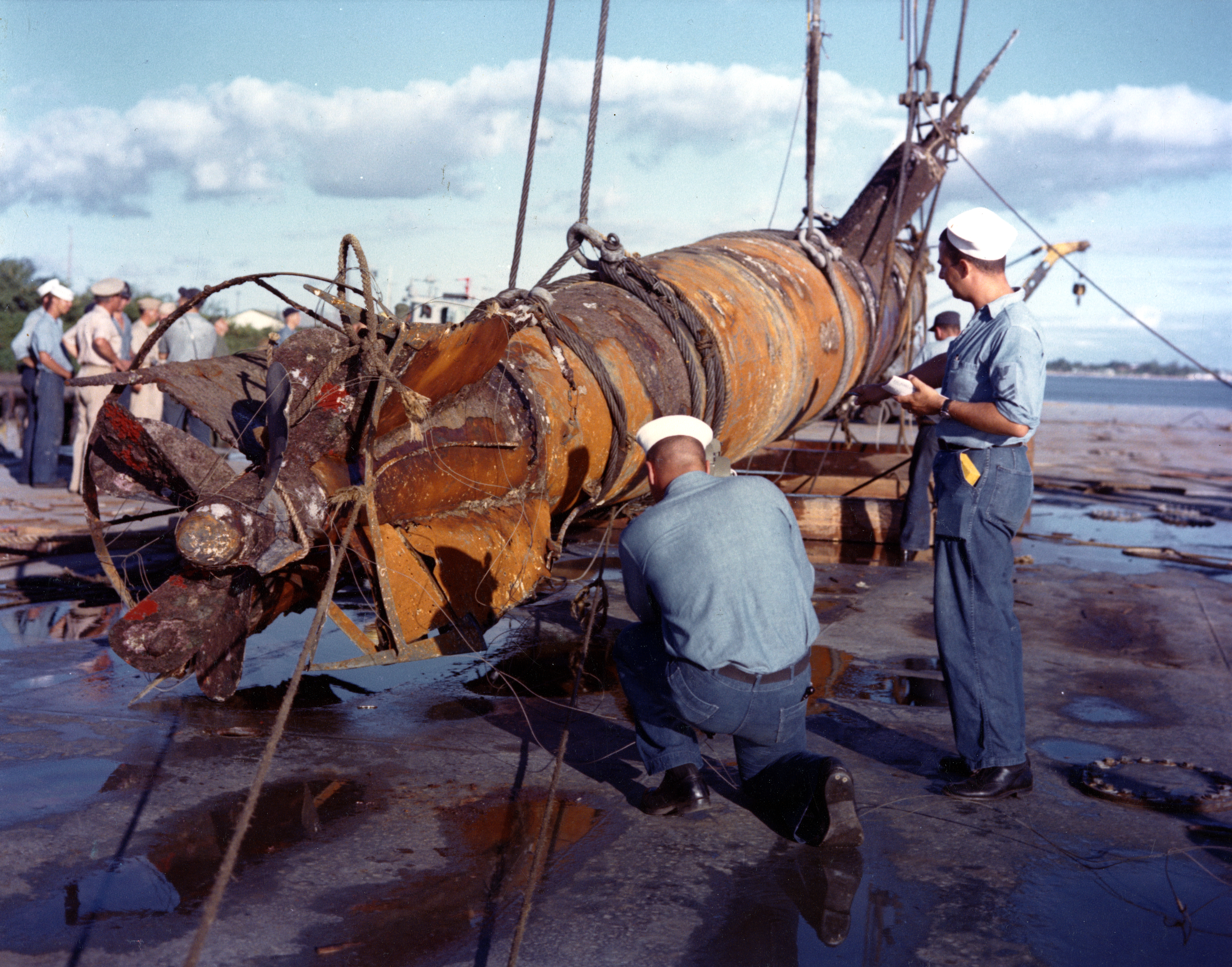 Photo #: KN-2589 (Color) Japanese Type A Midget Submarine Photographed soon after its recovery near the entrance to Pearl Harbor, Hawaii, circa late July 1960. It had participated in the attack on Pearl Harbor on 7 December 1941, but had apparently been unable to enter the harbor as its torpedoes had not been fired. Official U.S. Navy Photograph.